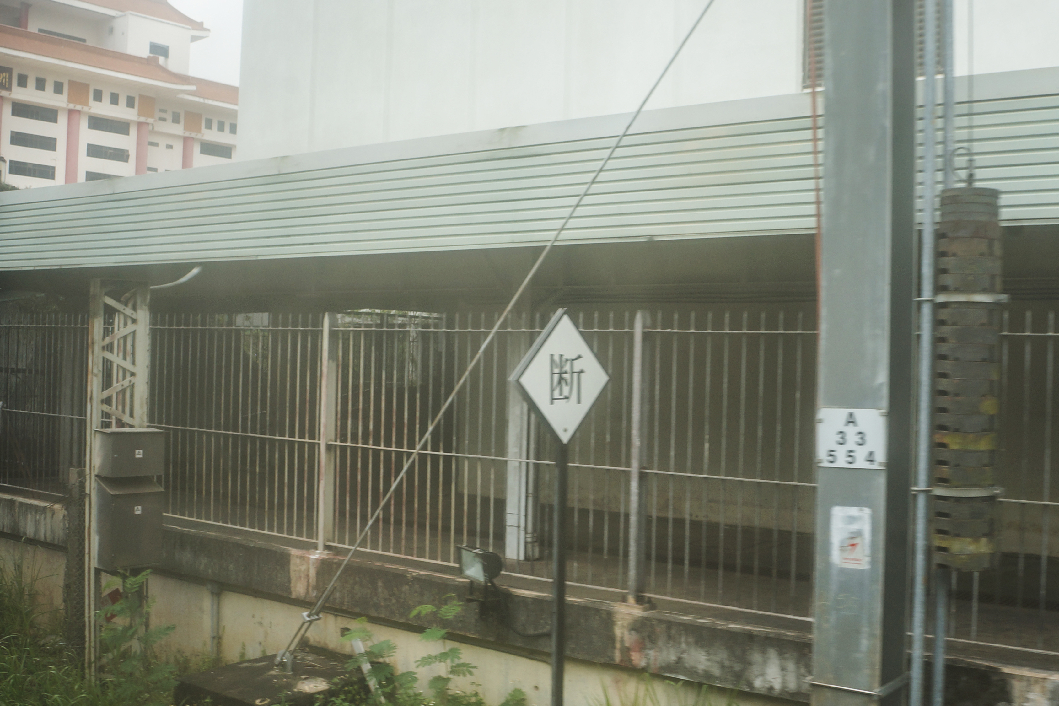 201609 "Off" sign north to the platform of Lo Wu Station